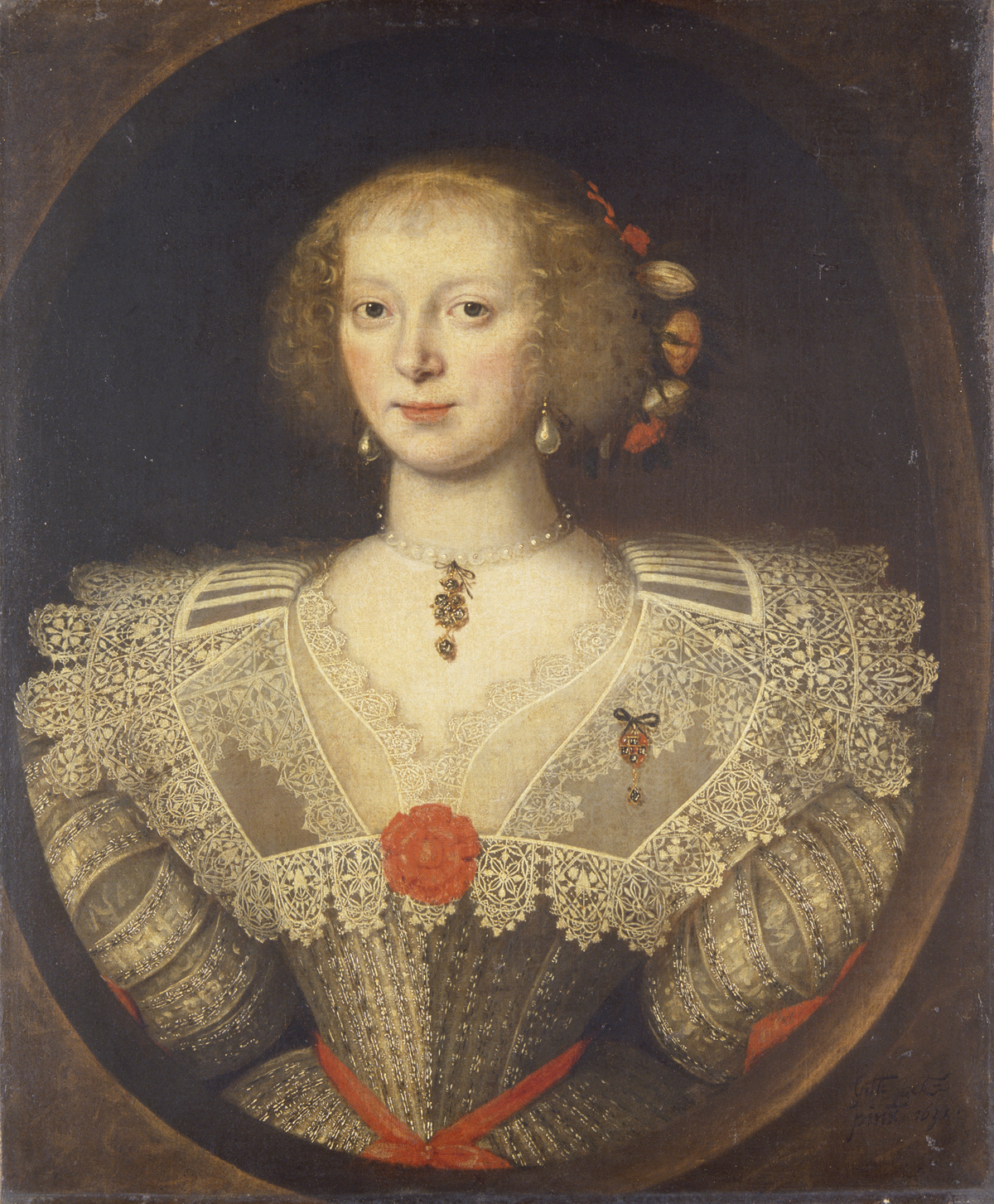 Portrait of Jane Lambart